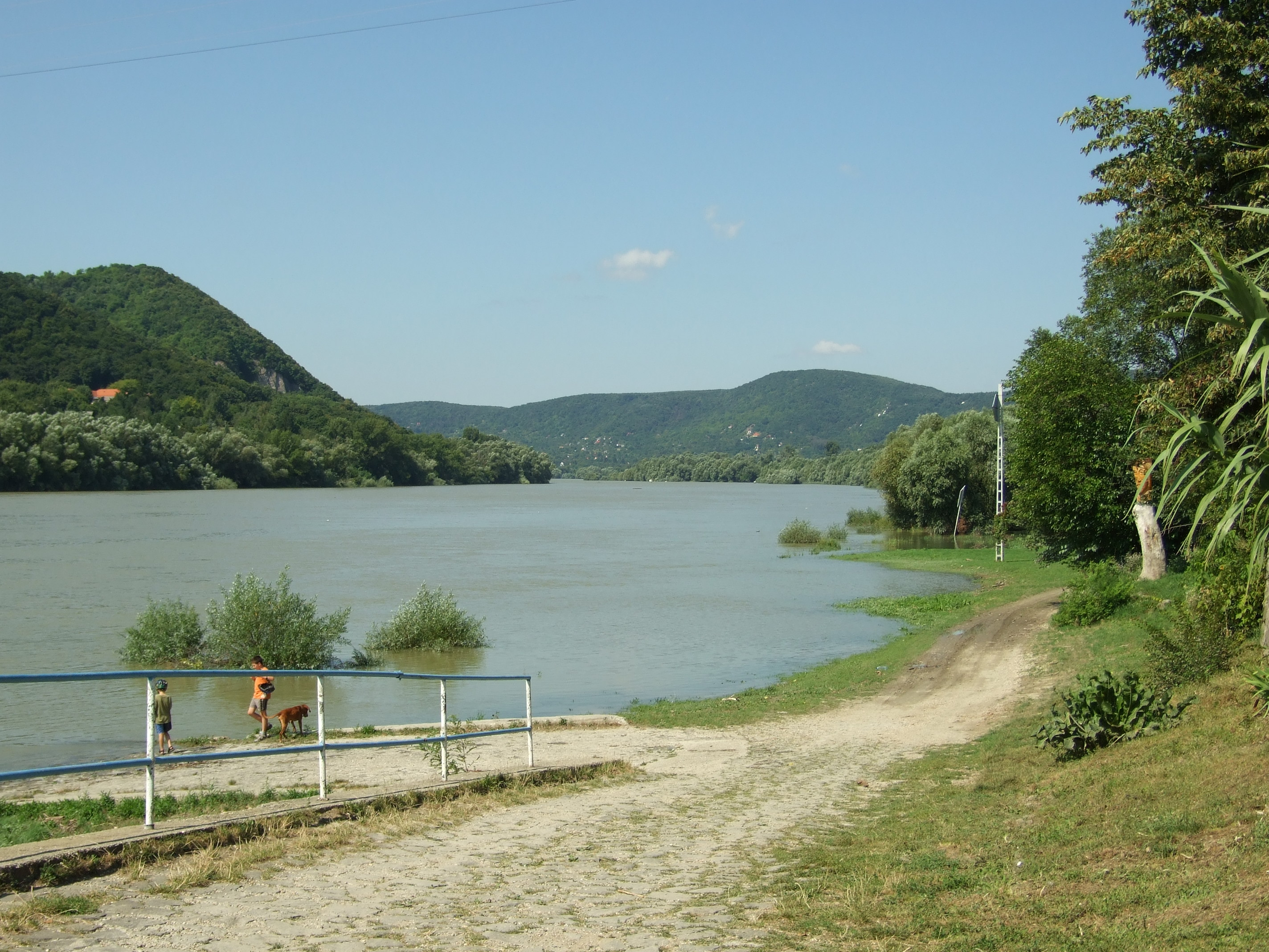 Danube in Kisoroszi in Duna-Ipoly national park, Pest comitat, Hungaryhelp